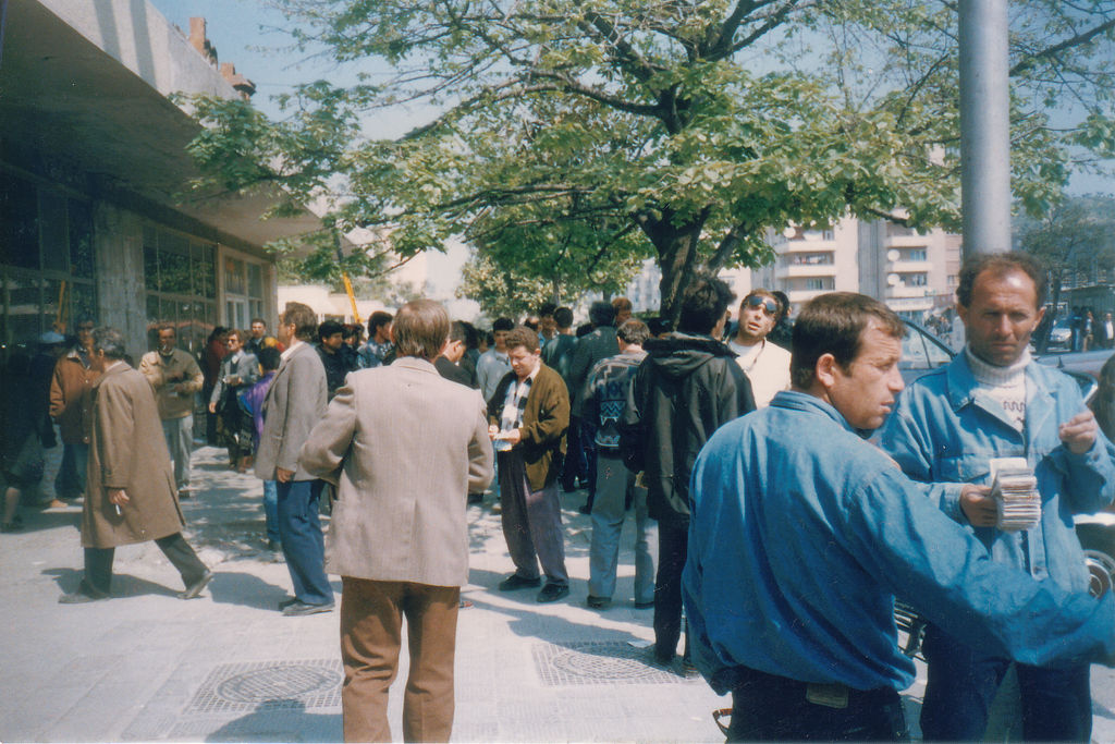 Because of the currency instabilities, it was safer to change money on the street. However, you had to be sure to count your money to eliminate the possibility of error. The money changers' lair was right next to a Bingo center (populated by all sorts of rrogash, or hoodlum types)